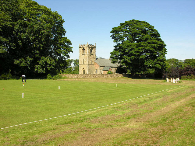 Saint Peter's Church, Rowley, East Riding of YorkshireA longer view from the grounds of the Rowley Manor Hotel, across the croquet square!